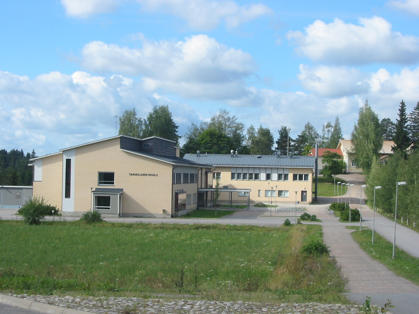 Tarvasjoki school in Tarvasjoki, Finland Proper